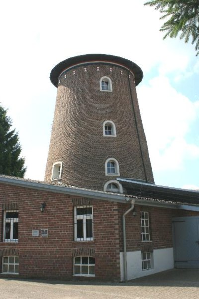 Cultural heritage monument No. 30 in Brüggen